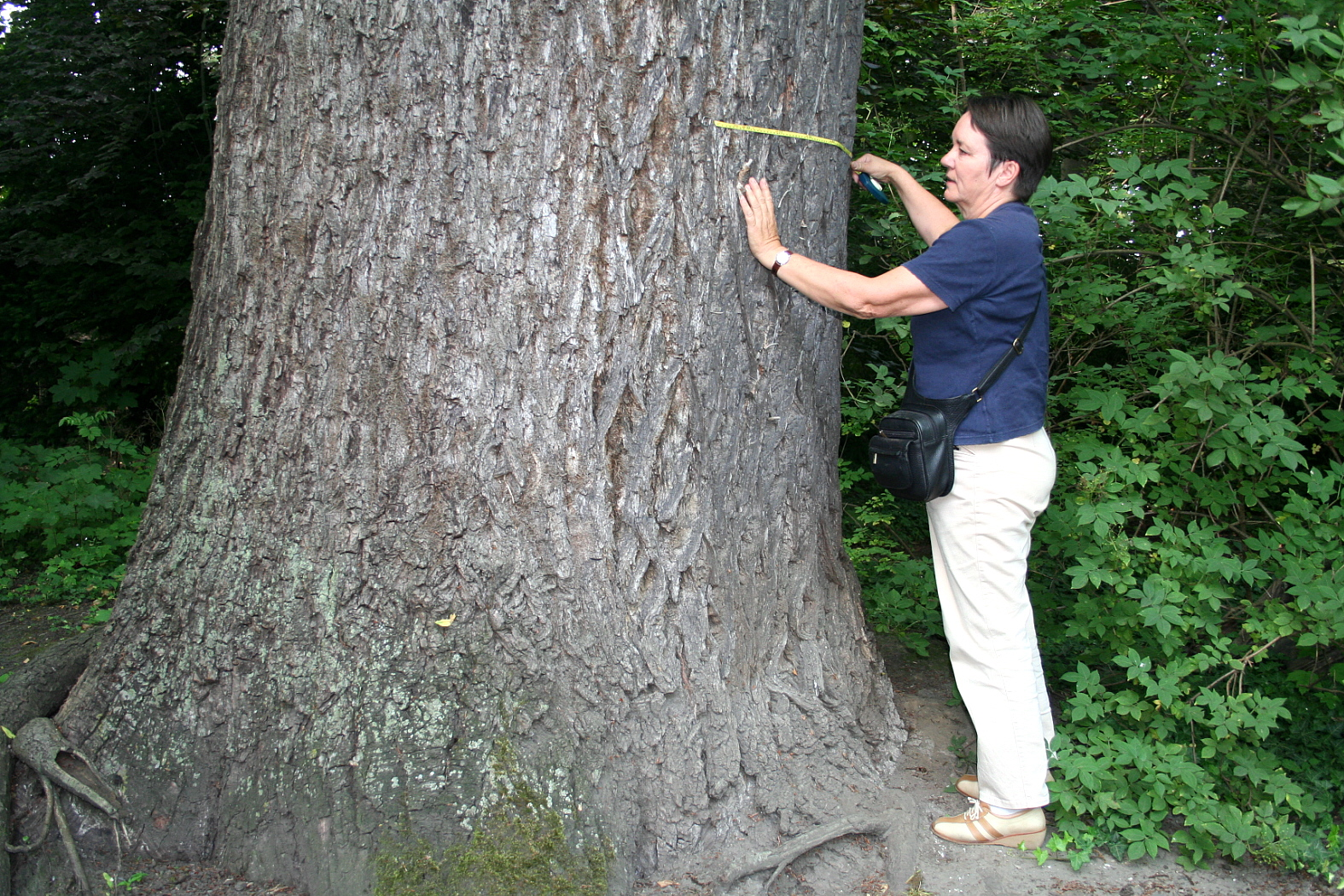 Eastern Black walnut.